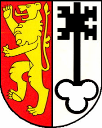 Blazon of Wilen, Canton of Thurgau, SwitzerlandEsperanto: Blazono de Wilen, Kantono Turgovio, Svislando